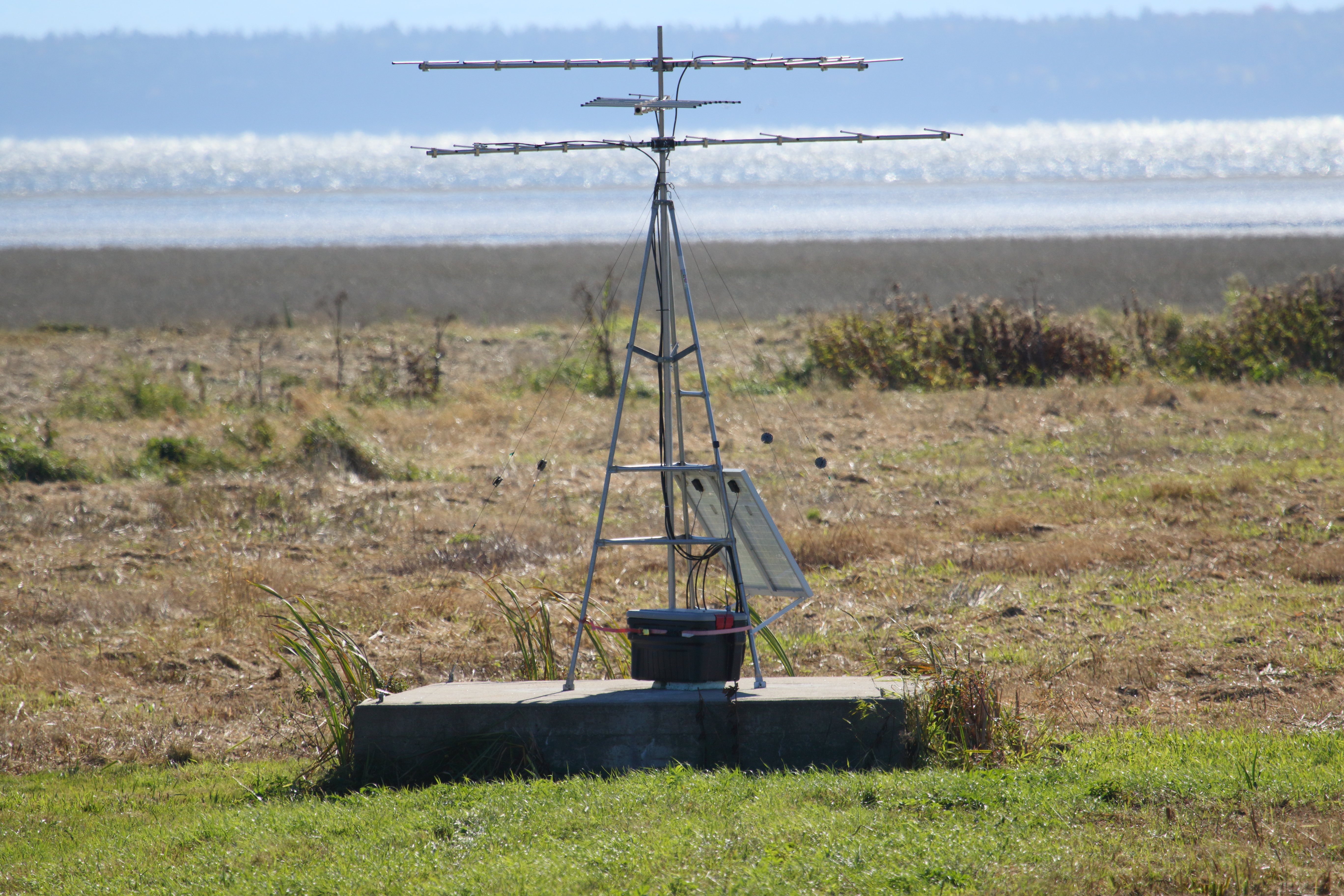 Antenna of the Motus Wildlife Tracking System in the Cap Tourmente National Wildlife Area, Quebec, Canada